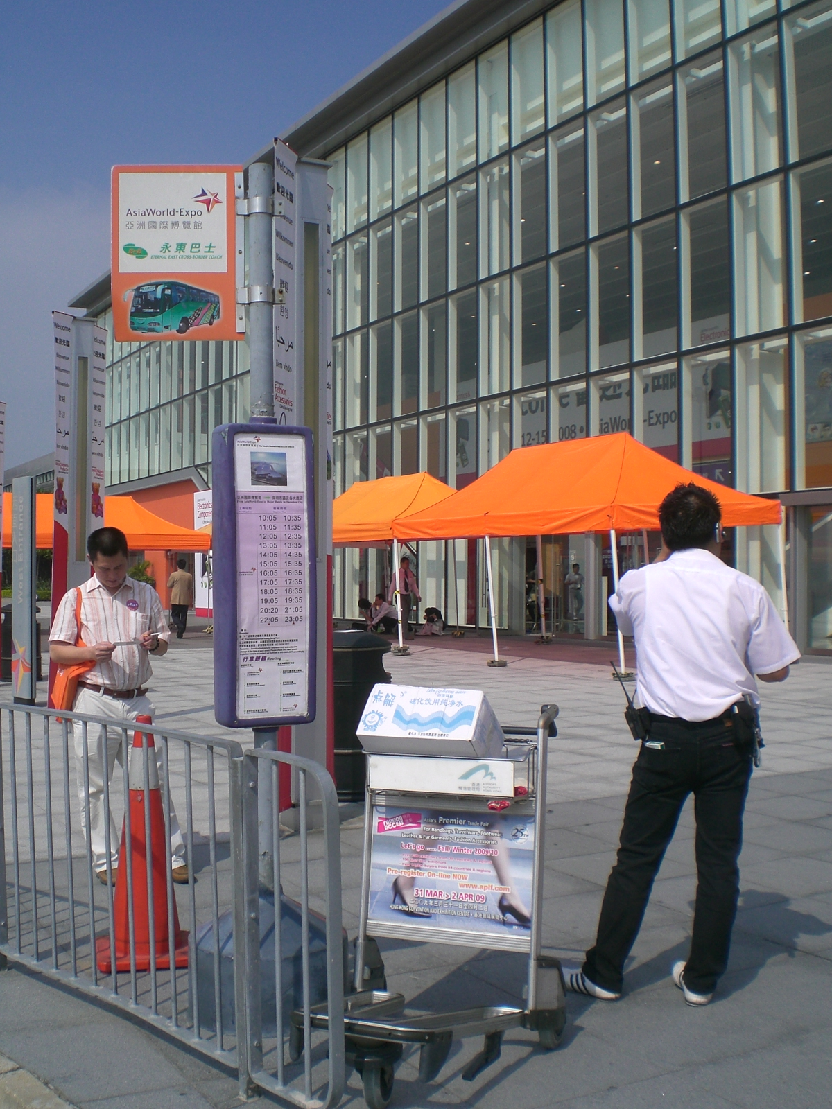 亞洲國際博覽館永東直通巴士zh:車站